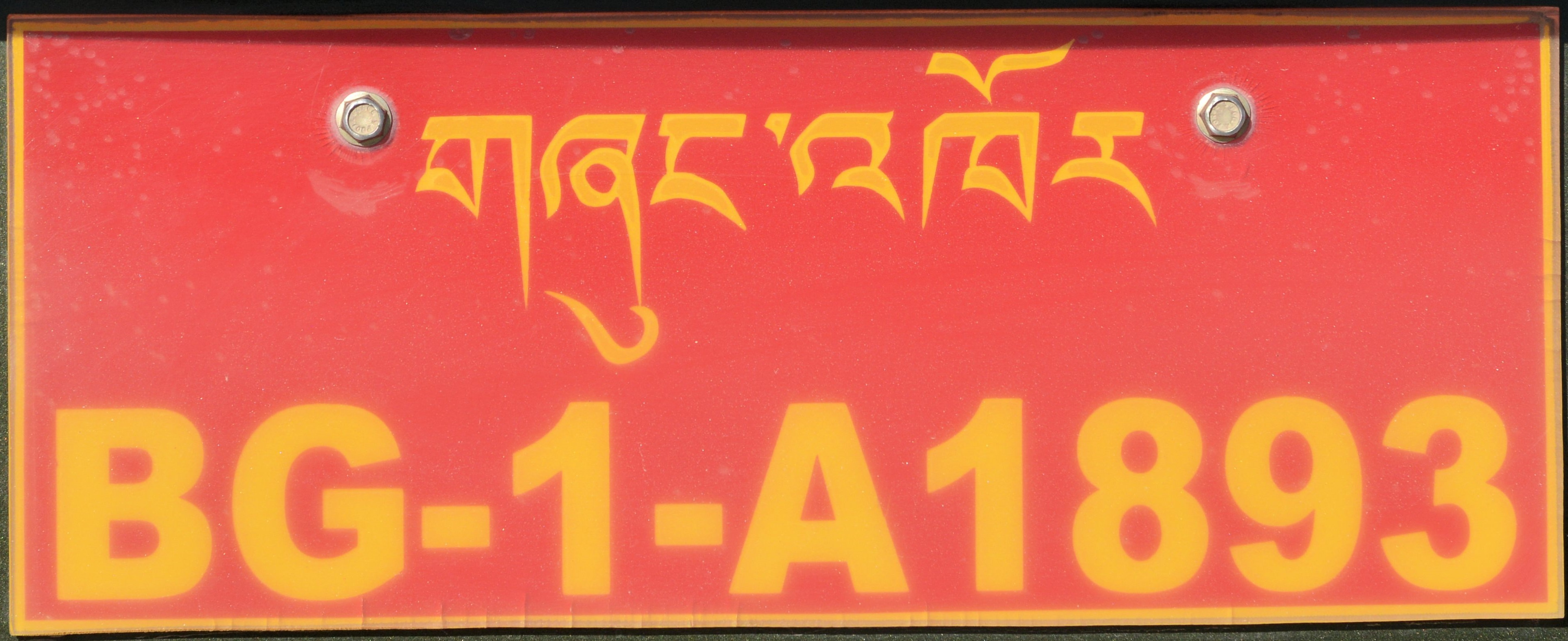 Example of Bhutan government vehicle licence plate. (BG Bhutan Government)